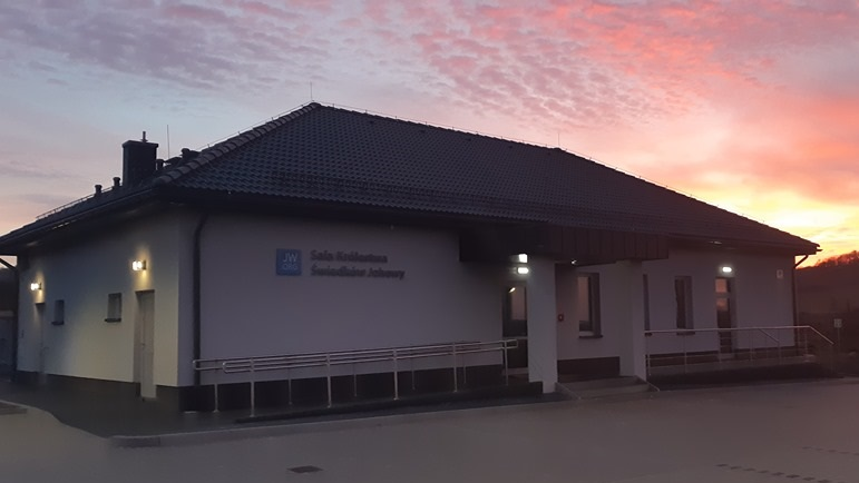 Kingdom Hall in Świebodzice (Poland)